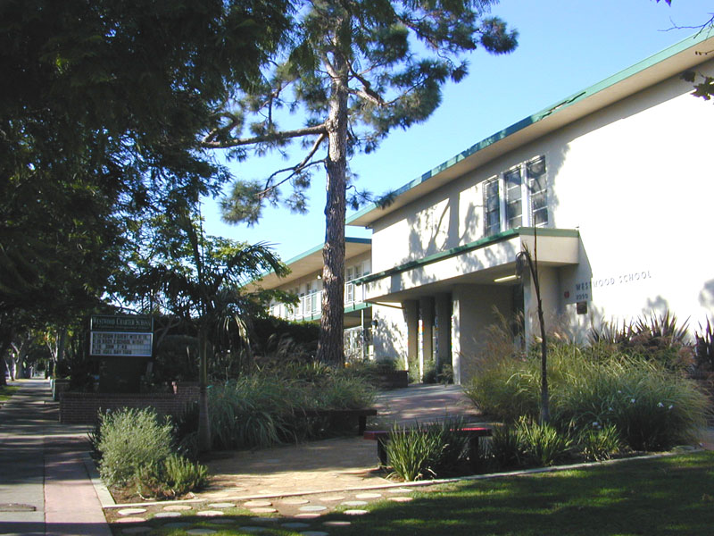 Westwood School in Westwood section of Los Angeles, CA